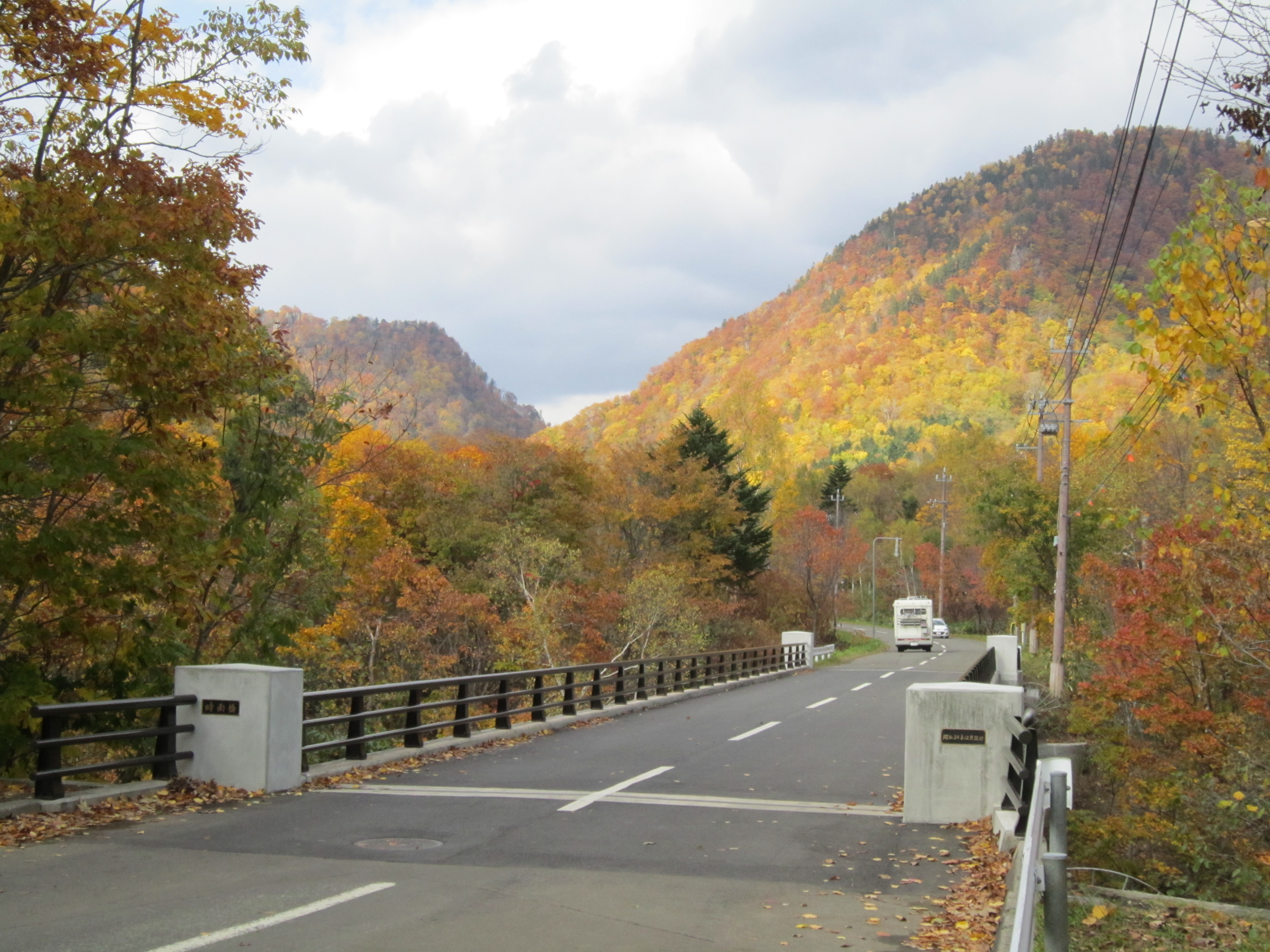 Shigure Bridge of Jozankei